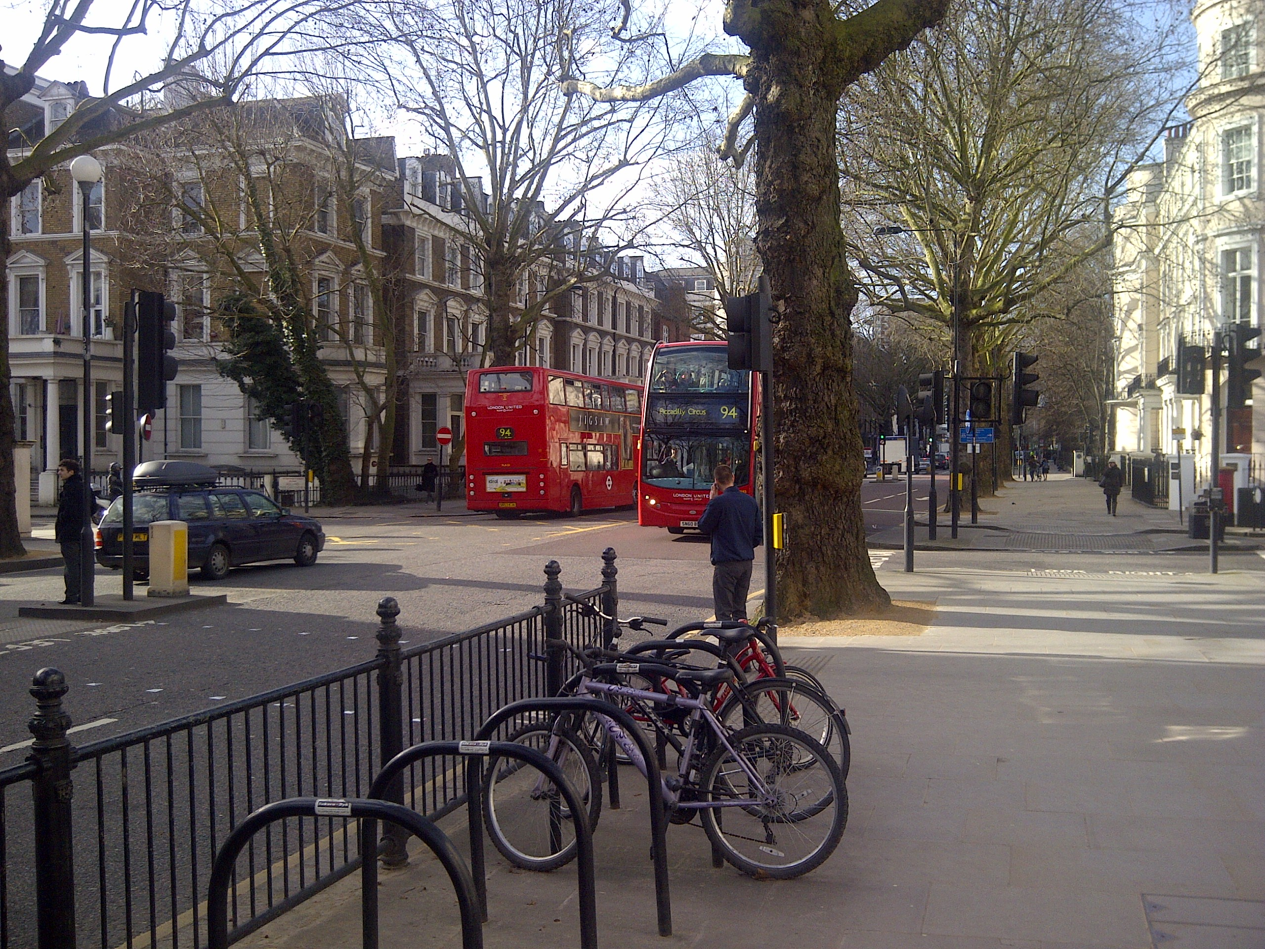 Holland Park Avenue, Kensington and Chelsea, London (Winter 2013)